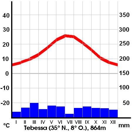 Climate diagram (in German) of Tébessa in Algeria created with